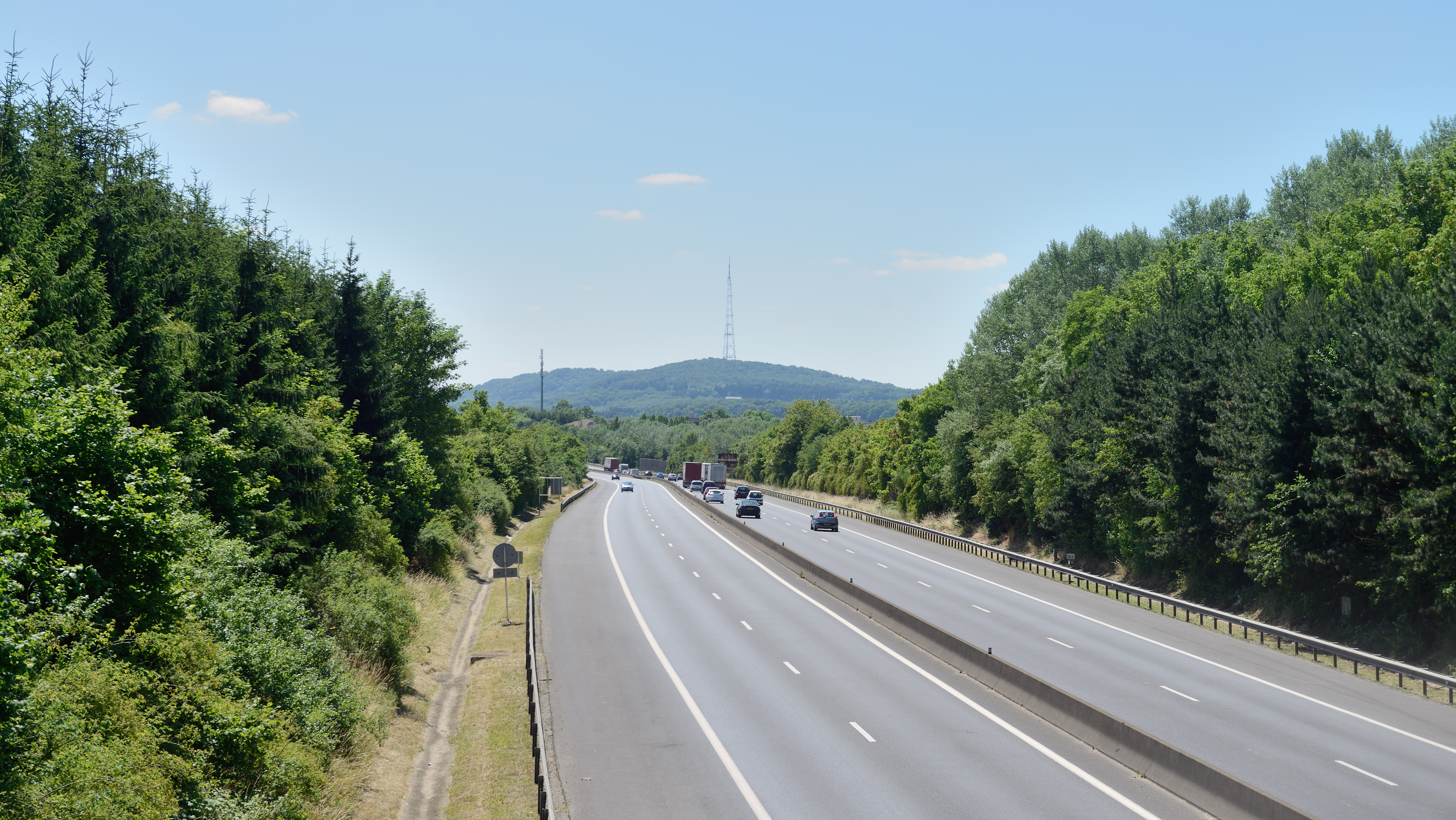 Highway A3 (Luxembourg) as seen from the footbridge at Bettembourg. In the background: the RTL Radio Tower Dudelange.